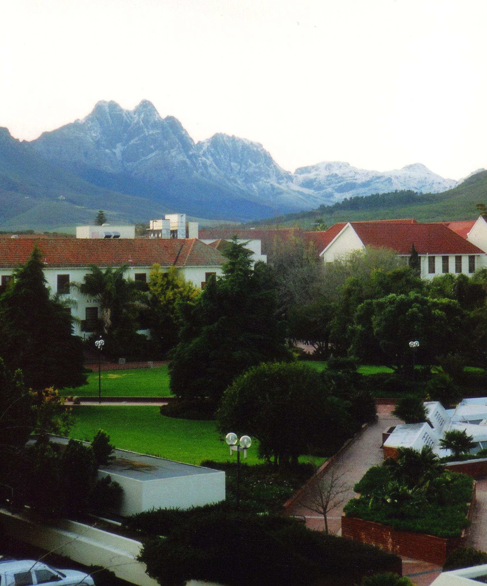 UniStellenbosch, from the U.S. Geography faculty, in August 2003